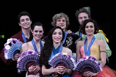 The ice dancing podium at the 2013-2014 Grand Prix of Figure Skating Final. From left: Tessa Virtue / Scott Moir (2nd), Meryl Davis / Charlie White (1st), Nathalie Péchalat / Fabian Bourzat (3rd).